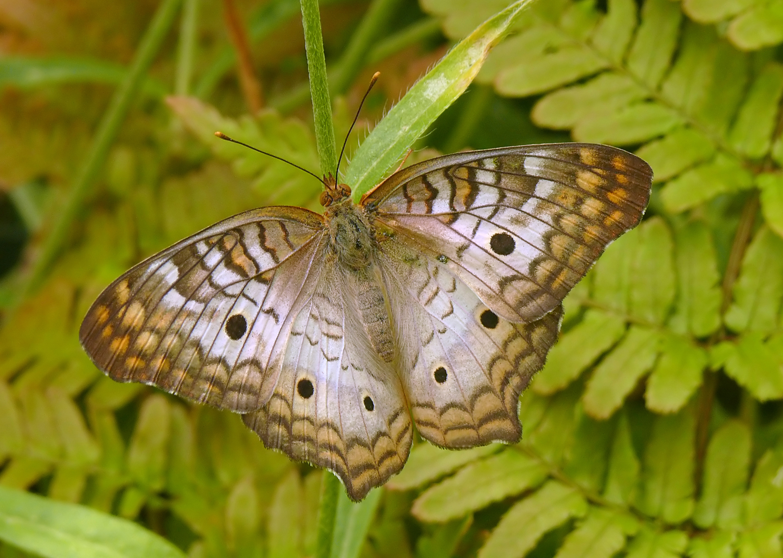 White Peacock butterfly - taken at Krohn Conservatory butterfly show - Cincinnati, OH.